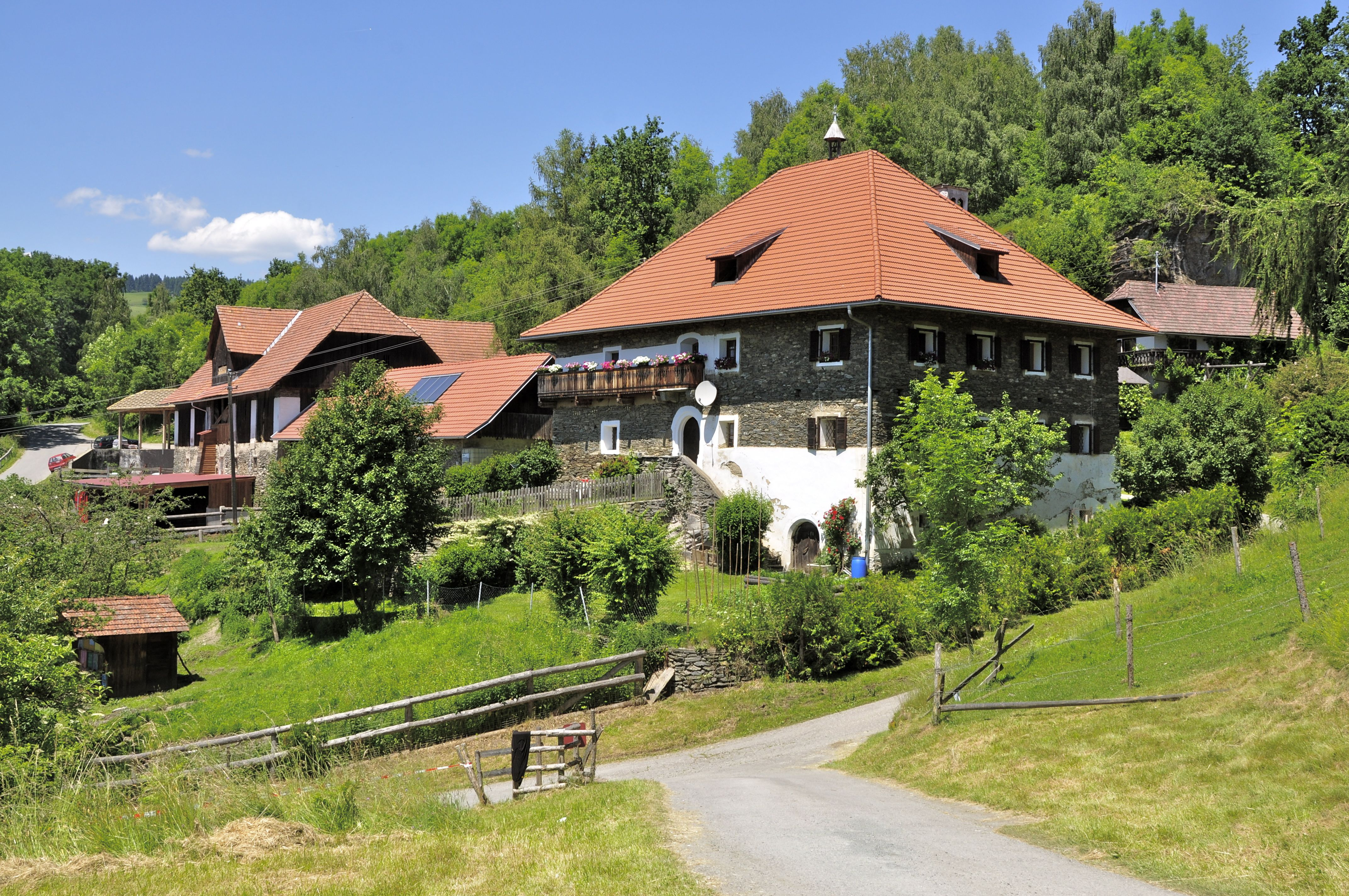 Former, late Gothic folwark and manor house of castle Liebenfels in Hoch-Liebenfels #4, market town Liebenfels, district Sankt Veit an der Glan, Carinthia, Austria, EU